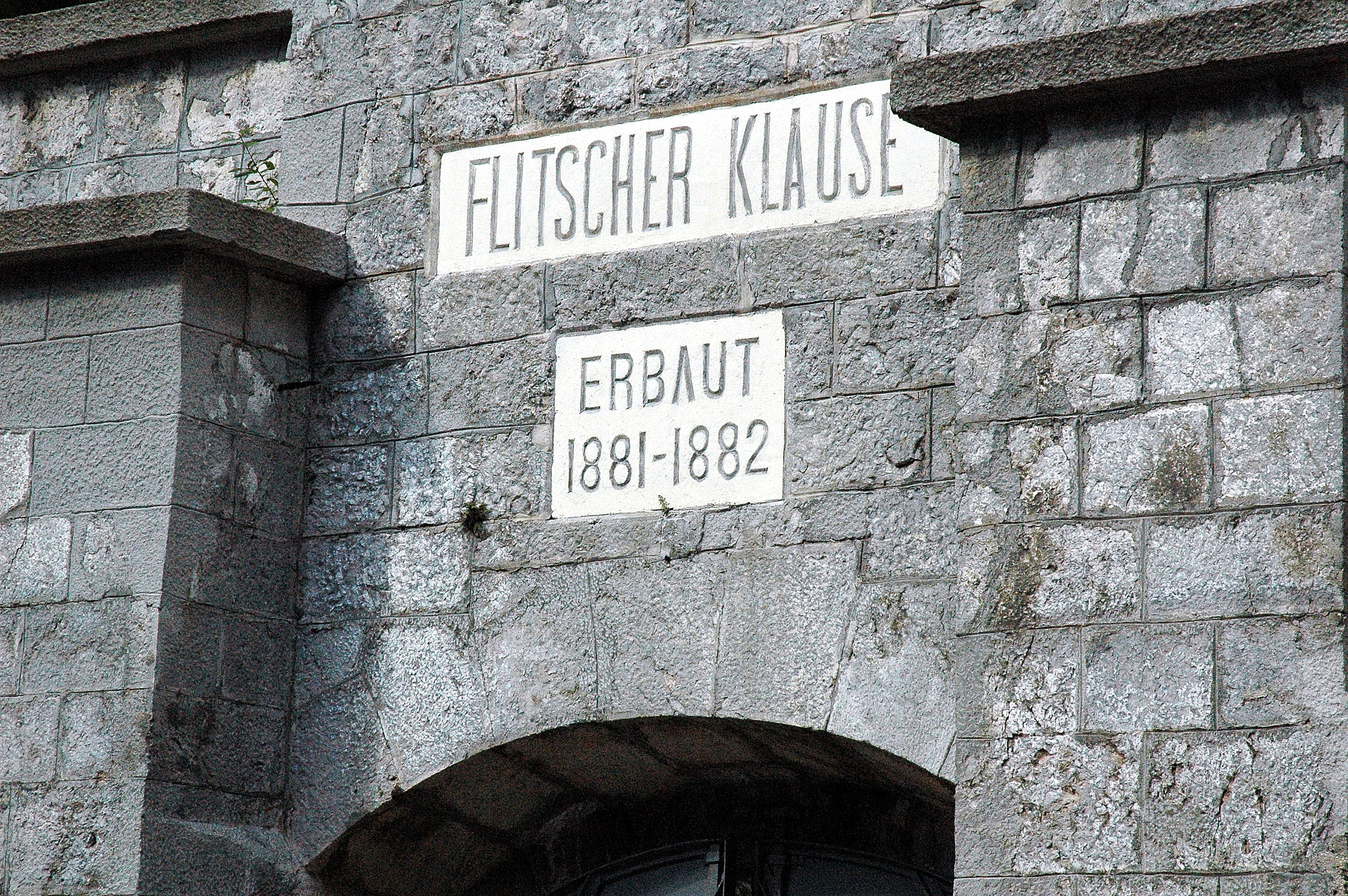 Inscriptions above the portal of Fort Kluže, bastion of the First Worldwar, Bovec, Slovenia, EU